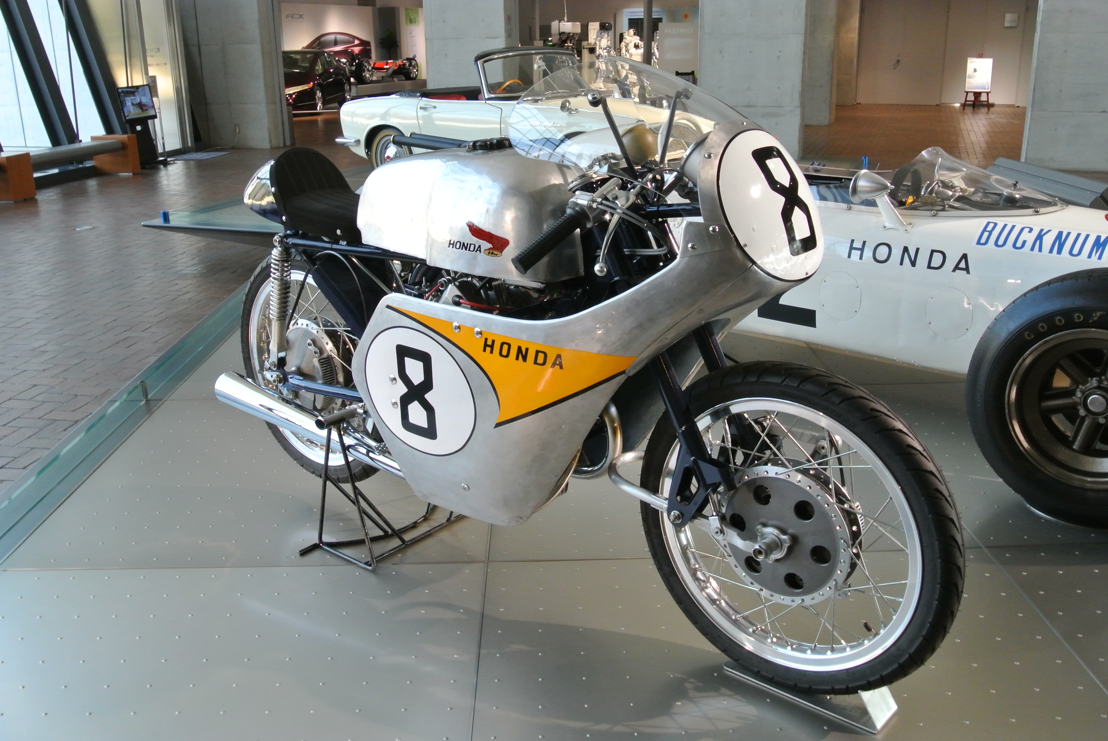 Honda RC142 of the 1959 Isle of Man TT Race. No.8 Naomi Taniguchi.